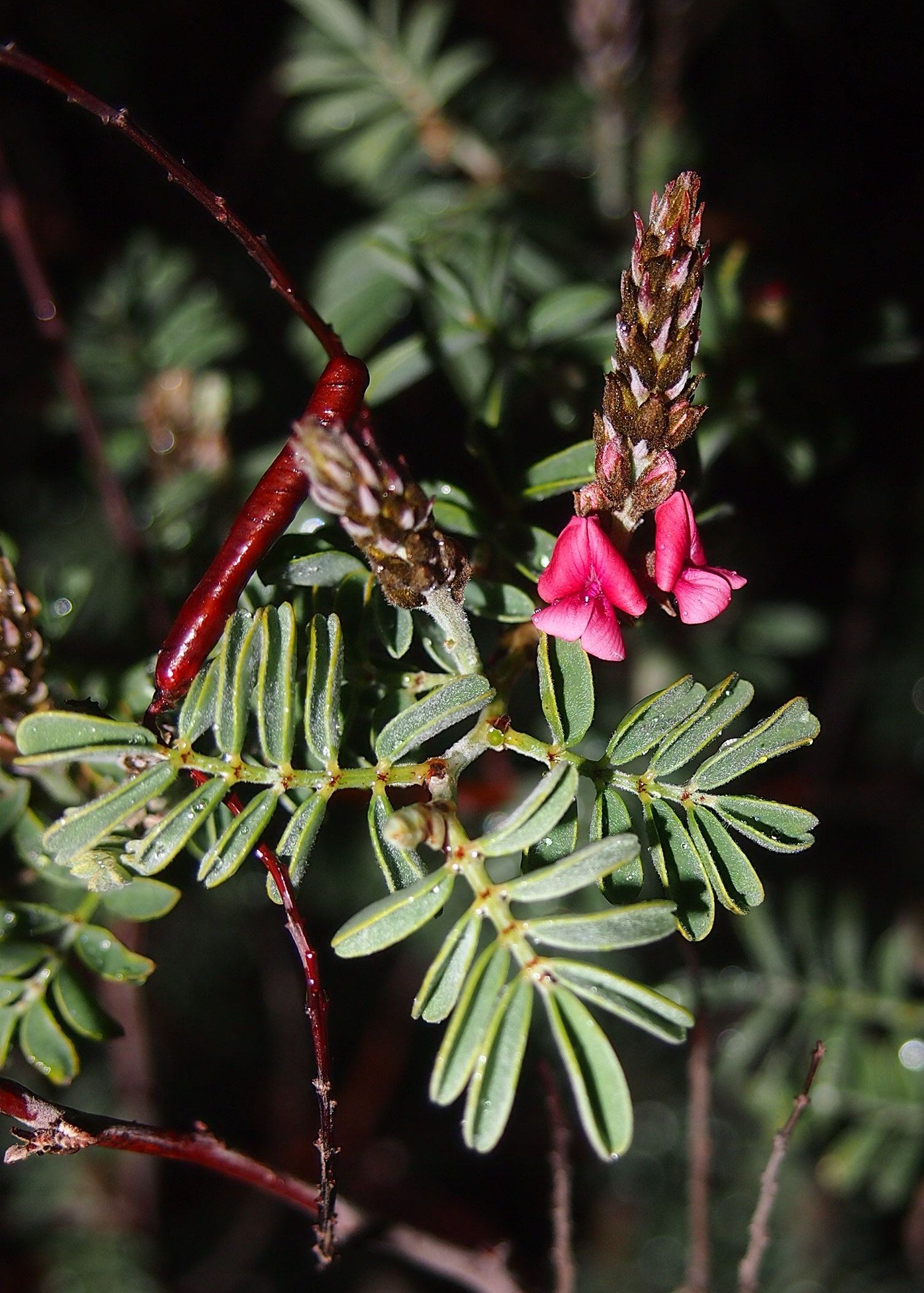 Indigofera basedowii flowers